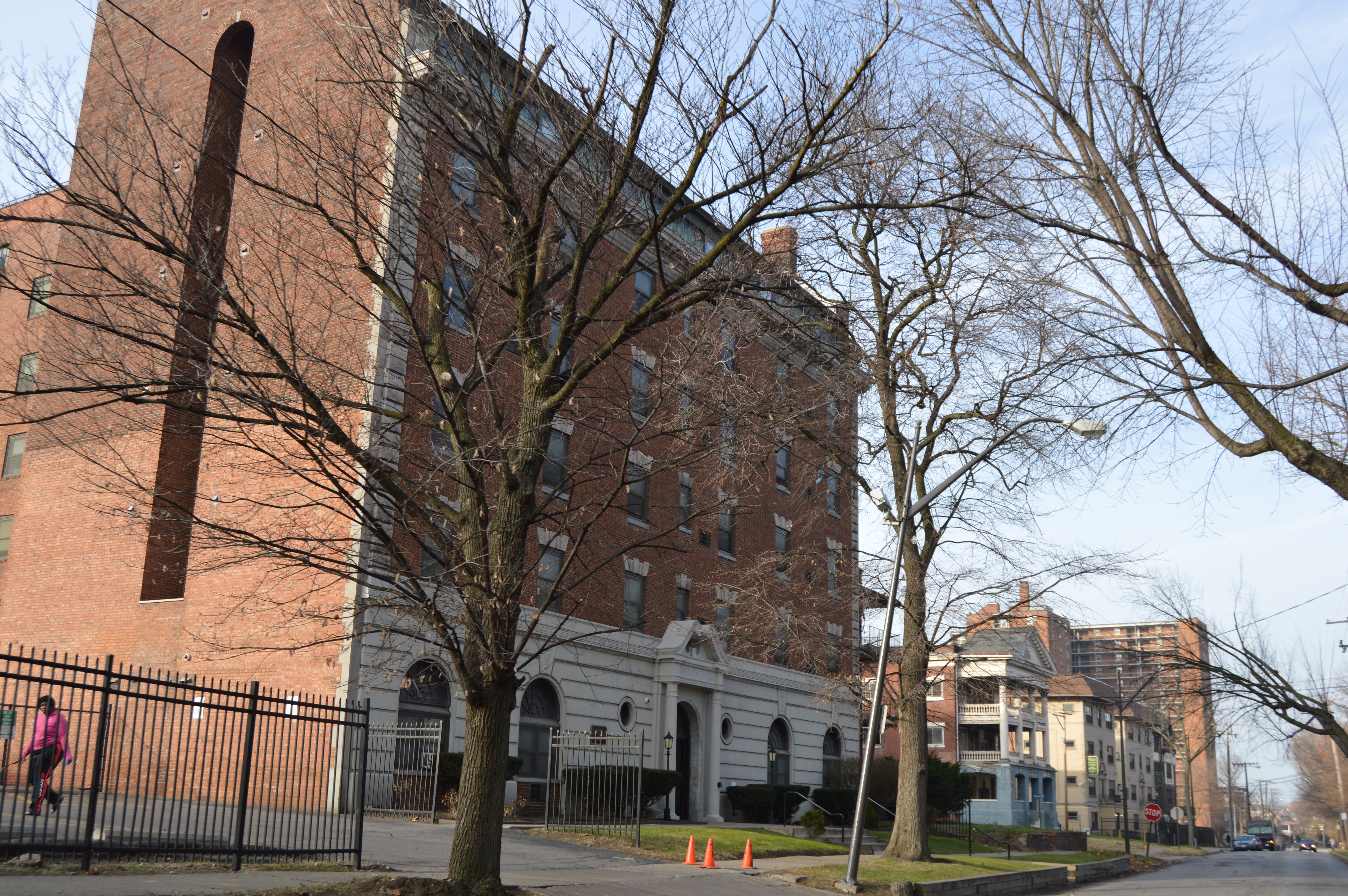 Buildings on the western side of Ansel Road at the Kenmore Avenue intersection in Cleveland, Ohio, United States. This section of Ansel is part of the Ansel Road Apartment Buildings Historic District, a historic district that is listed on the National Register of Historic Places.